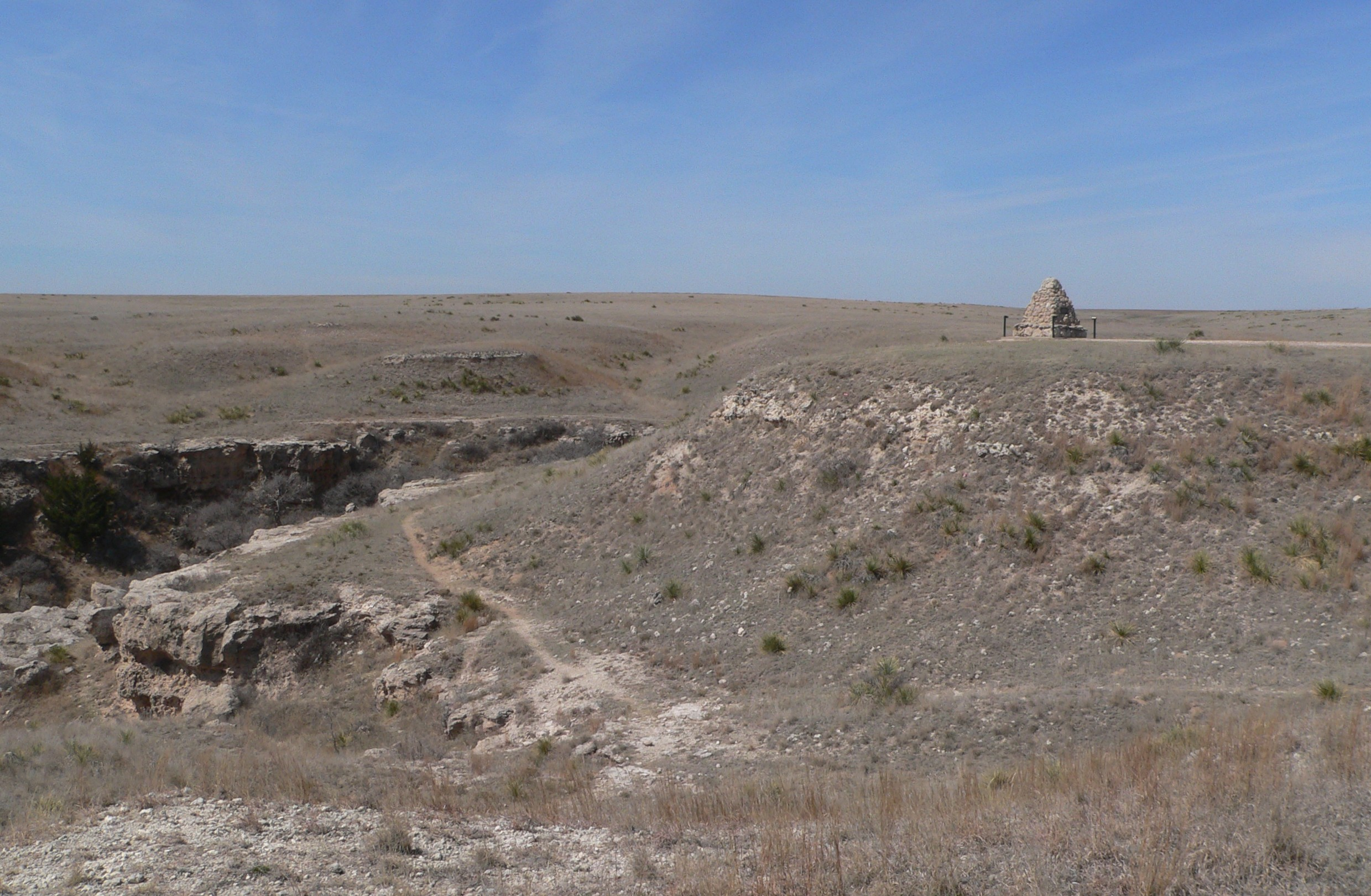 Monument at Battle Canyon in Scott County, Kansas, site of the Battle of Punished Woman's Fork during the Northern Cheyenne Exodus of 1878.